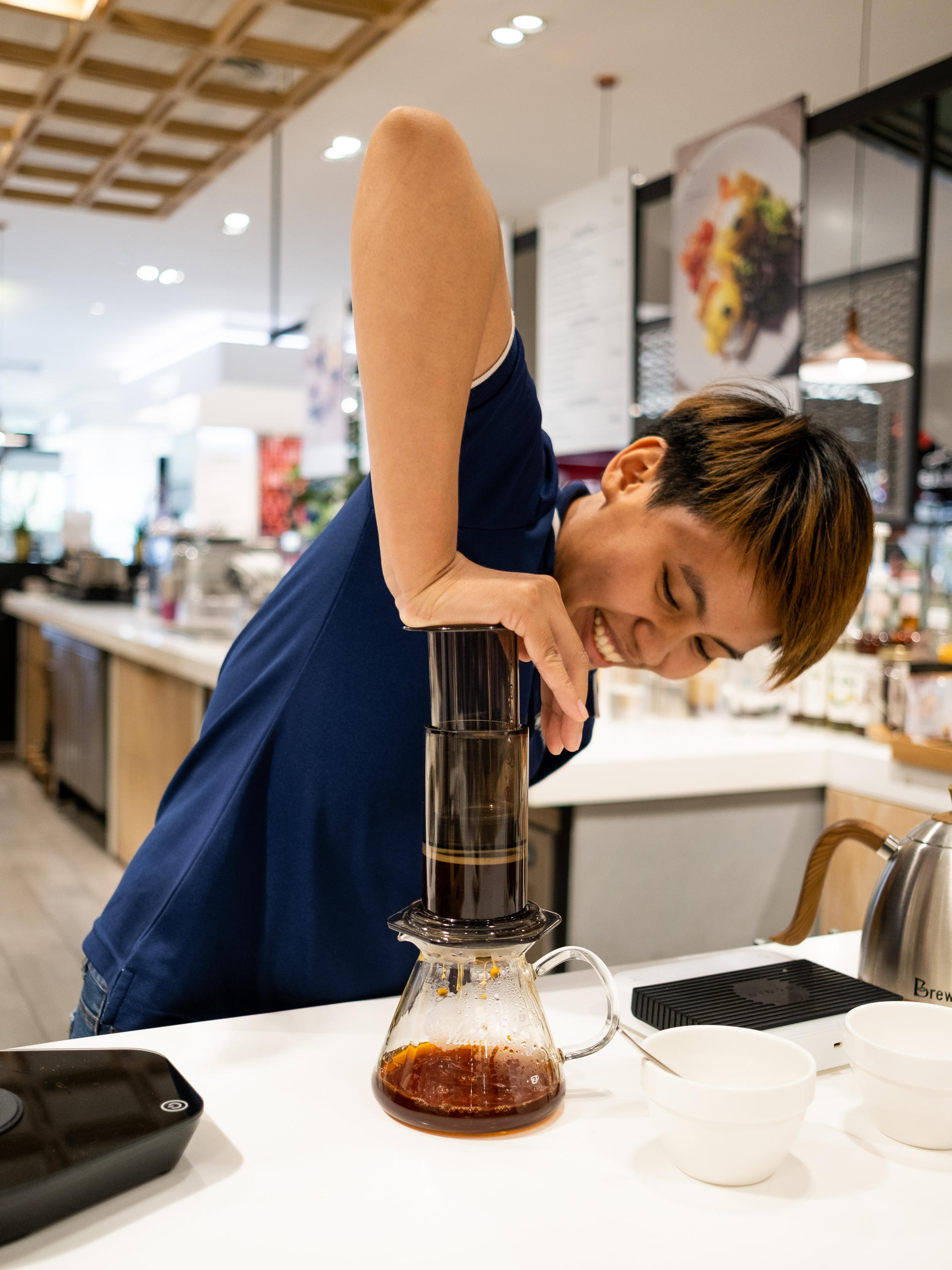 AeroPress at the Pacamara coffee shop inside Central Department Store, Korat